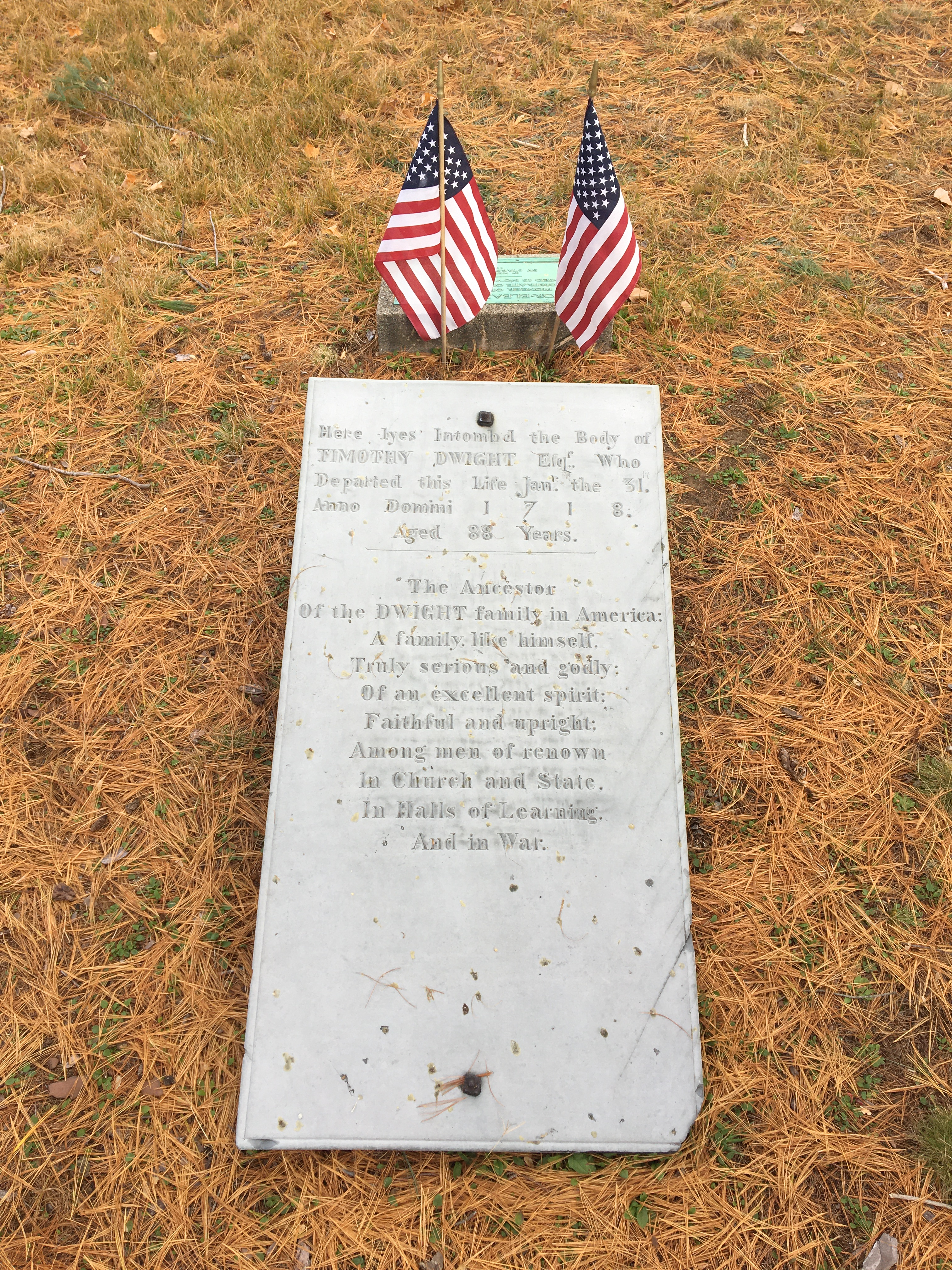 The tombstone of Timothy Dwight at Old Village Cemetery in Dedham, Massachusetts